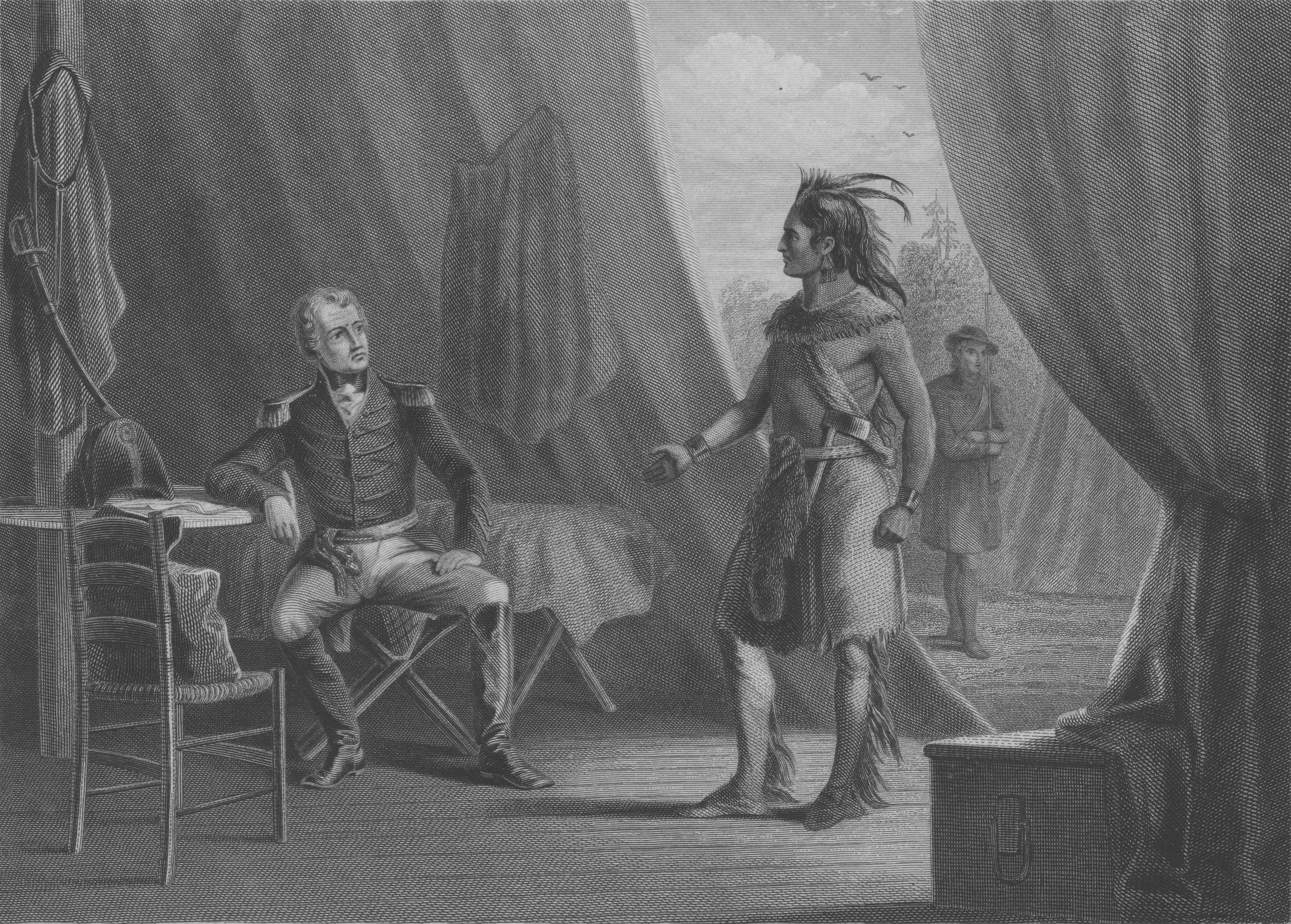 Summary: Print shows Andrew Jackson sitting in a chair on the left, in a tent, speaking with William Weatherford who is standing on the right near the opening of the tent.